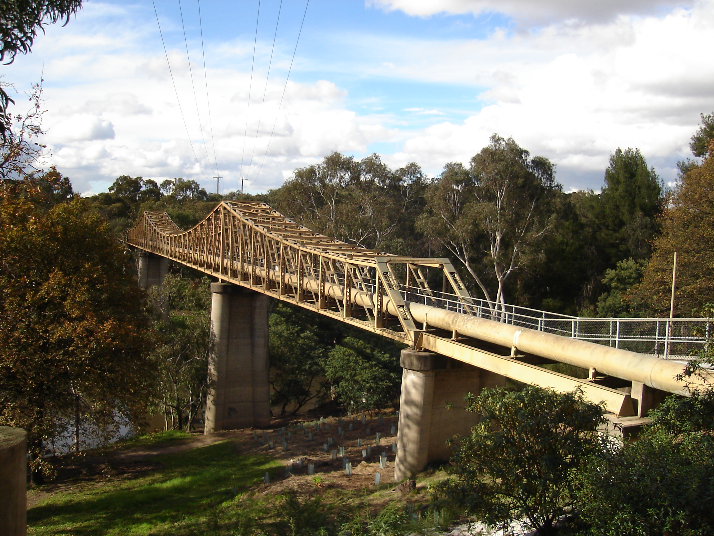 Fairfield Pipe Bridge, Fairfield, Australia, crossing the Yarra River. Photo taken by Nick carson in June 2009.